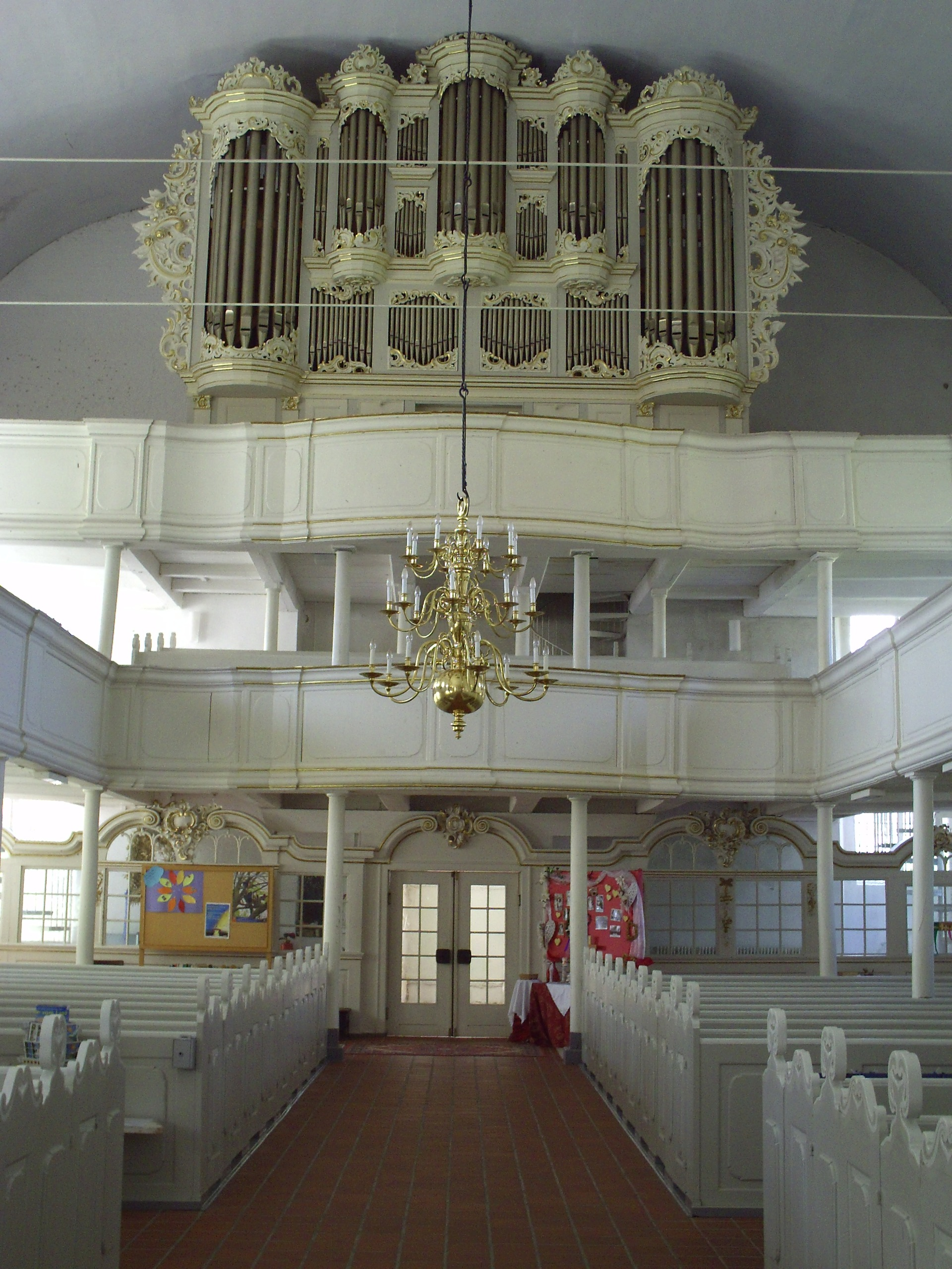 Interior with matroneum of the St. Petri Church in Osten, district of Cuxhaven, Lower Saxony, Germany